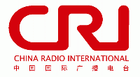 Logo of CRI